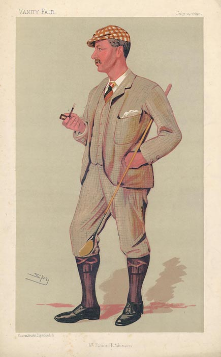 Men of the Day No.0477: Caricature of Mr Horace Gordon Hutchinson. Caption reads: "Mr Horace Hutchinson"